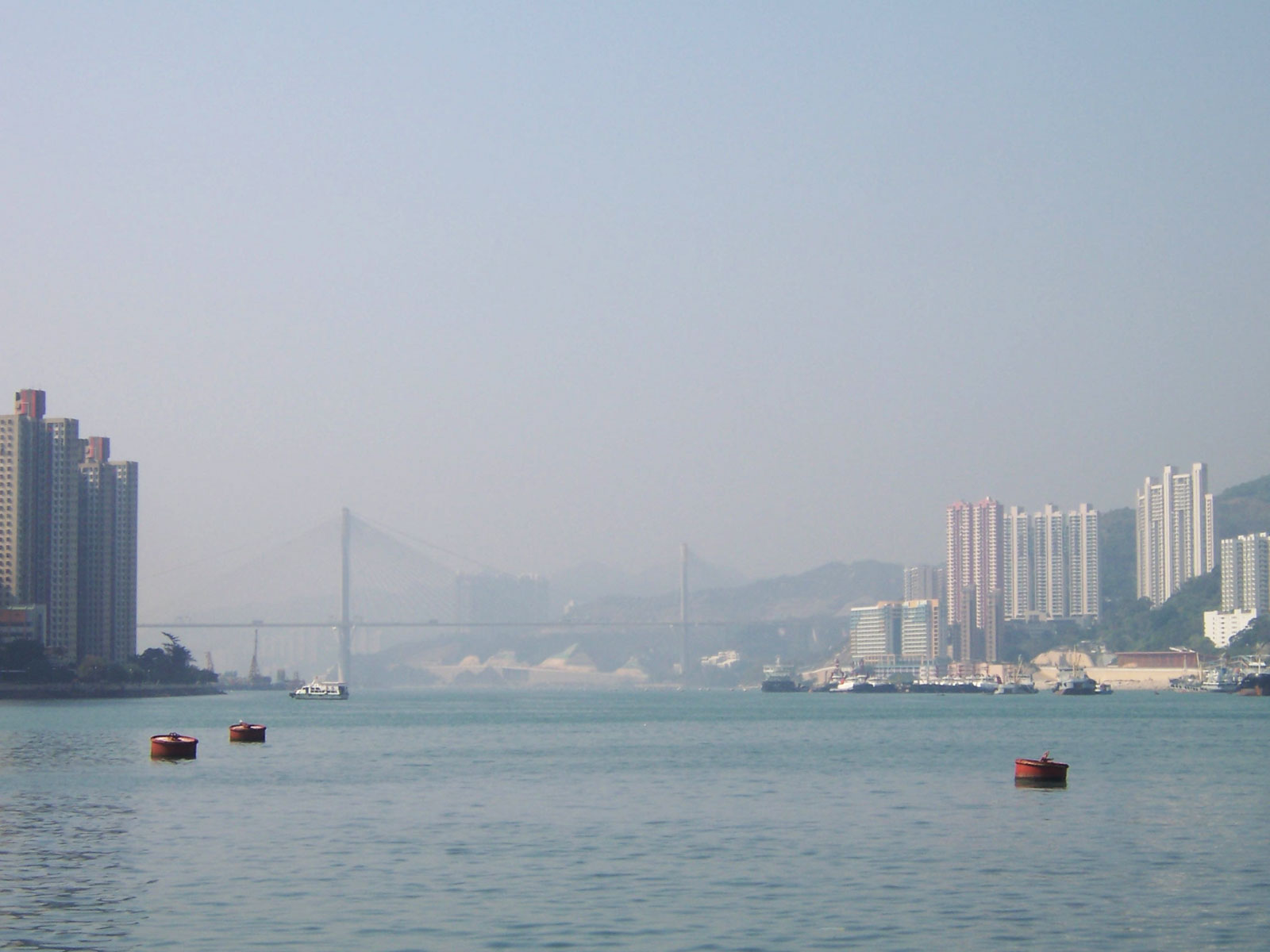 Ting Kau Bridge as viewed from Tsuen Wan. Taken by Enoch Lau on 2 January 2006. As a courtesy, please let me know if you alter this image or this image description page. Original filename was 100_1215.JPG.